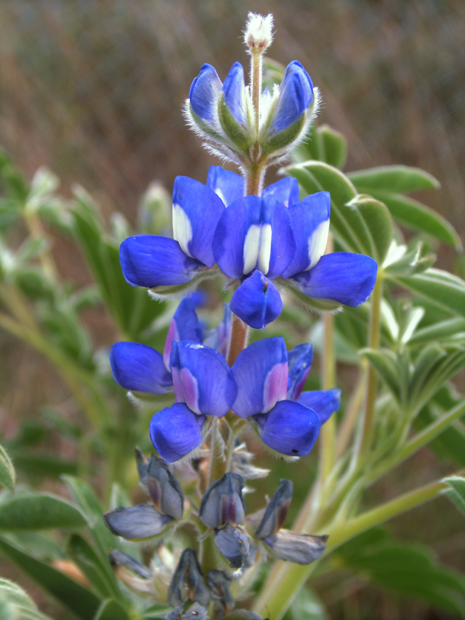 Species Lupinus micranthus Familia Fabaceae